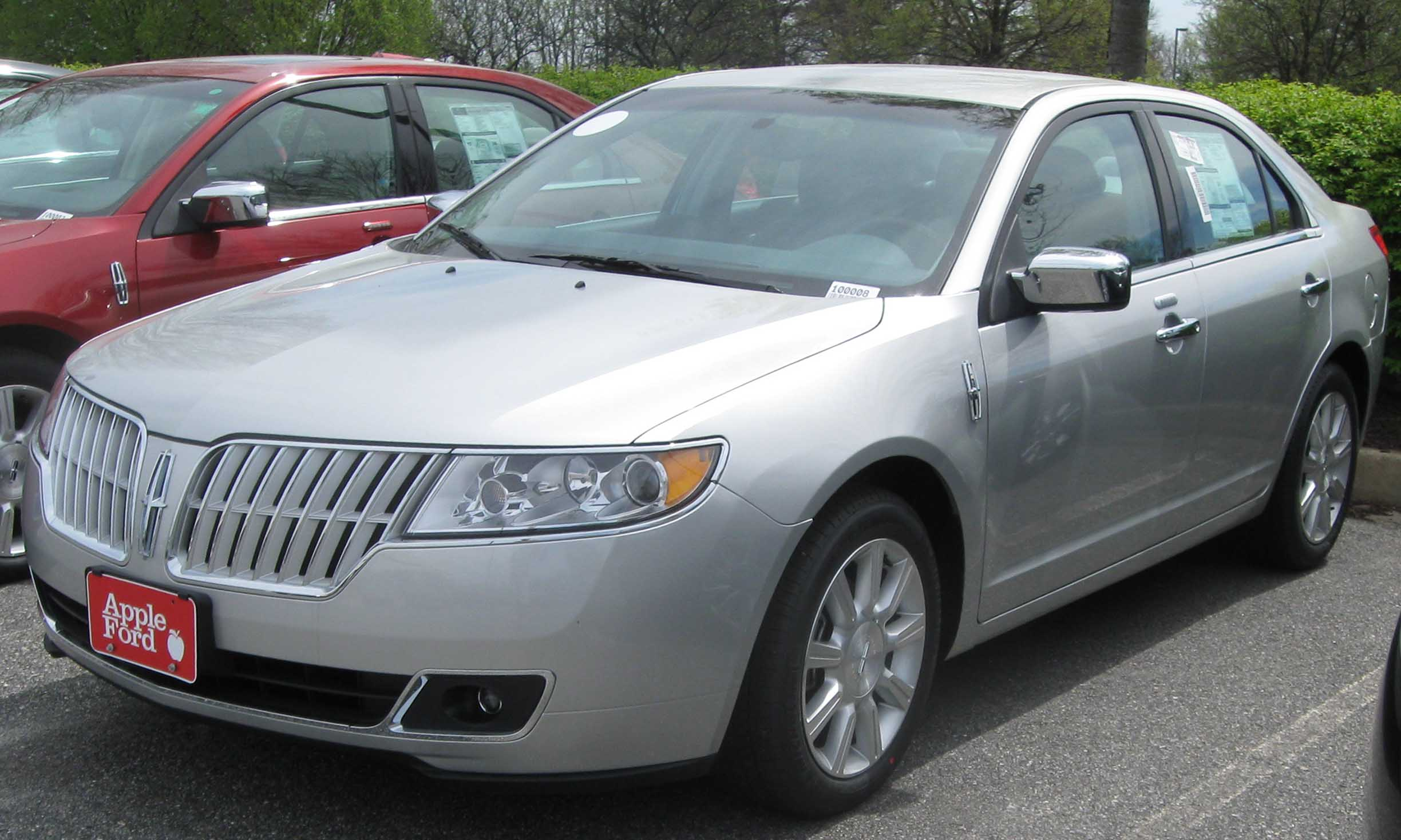 2010 Lincoln MKZ photographed in Columbia, Maryland, USA.